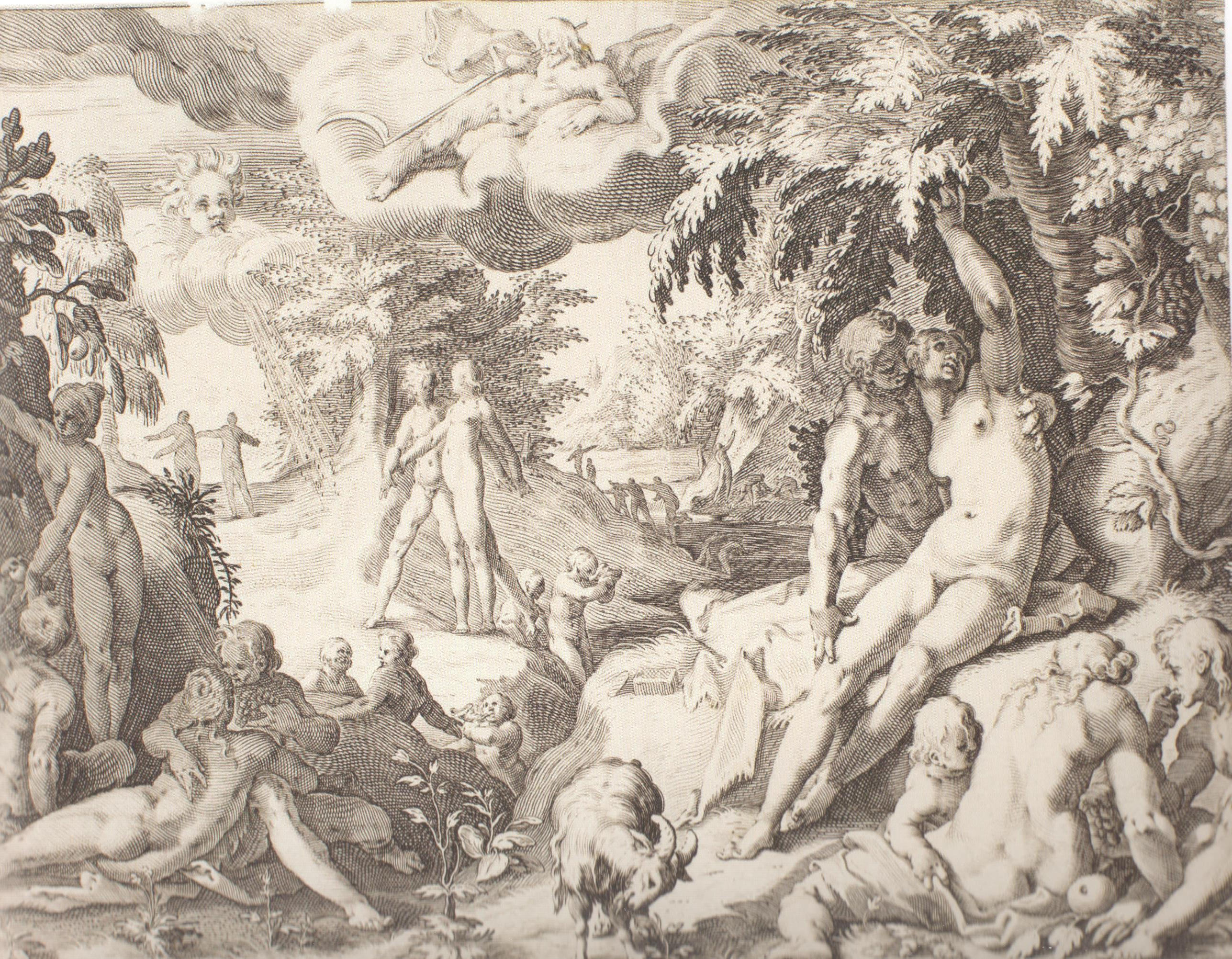 Kabinet grafike HAZU - Croatian Academy of Sciences and Arts, Department of Prints and Drawings